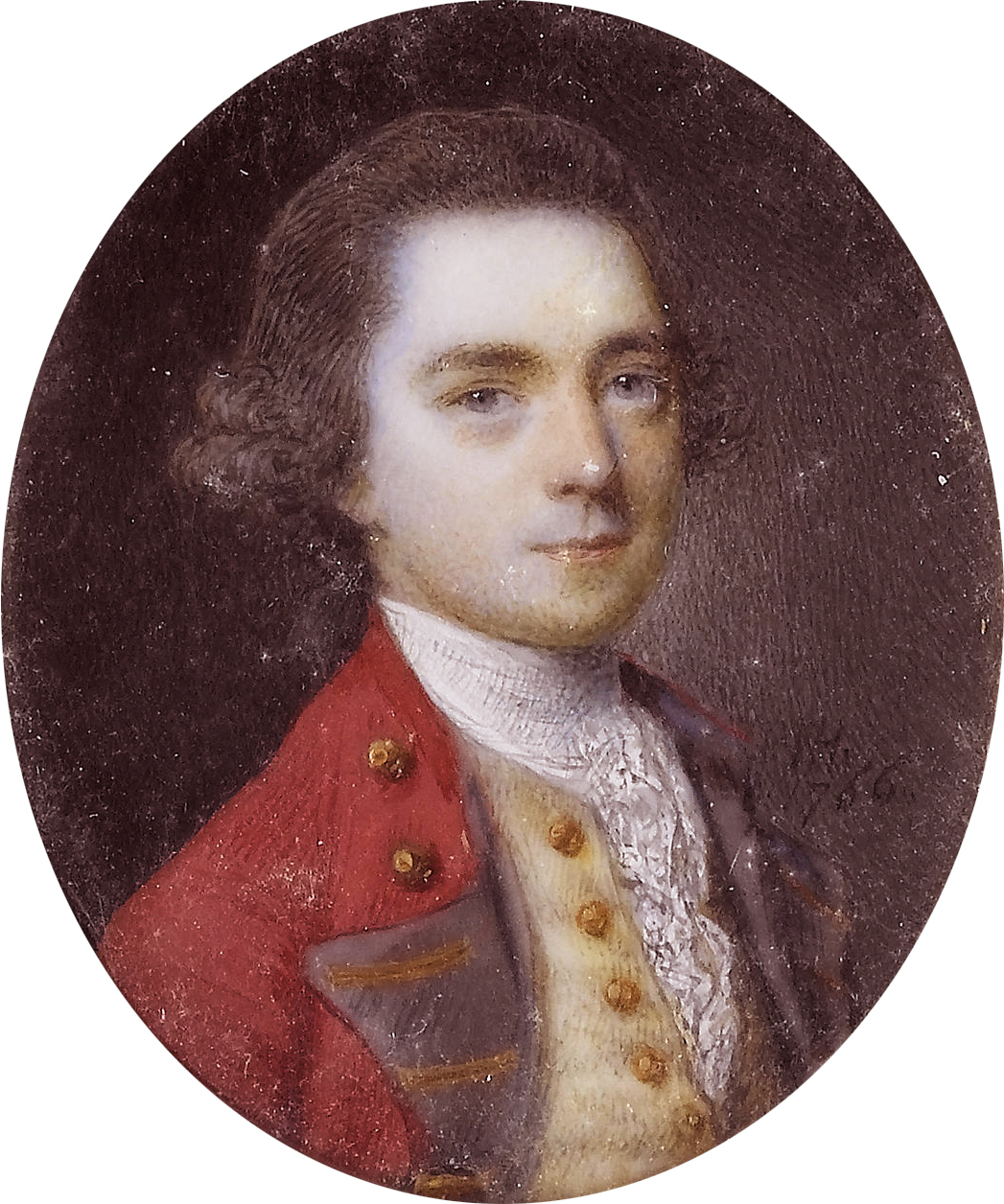 Thomas Wynn, later 3rd Bt and 1st Baron Newborough (1736-1807) Oval, 4 cm high signed b.r.: NH/ 1766